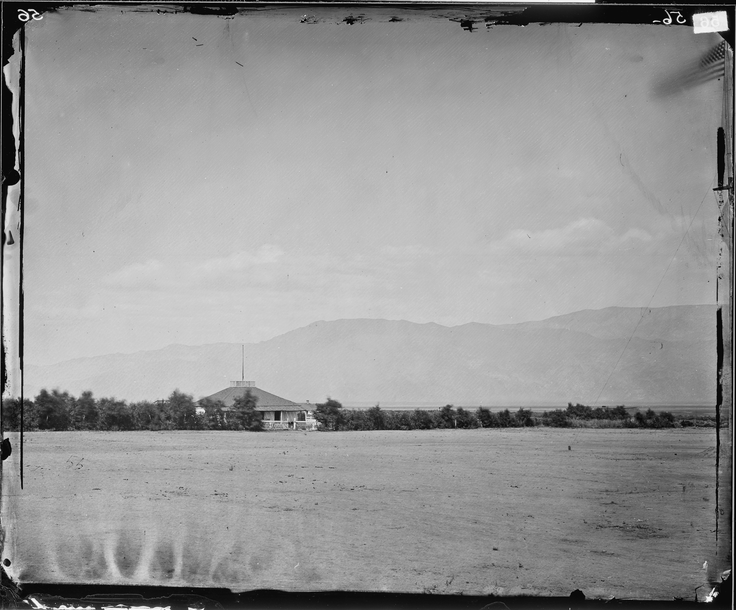 General notes: Camp Independence in 1871 — in the Owens Valley, eastern California. A U.S. Army fort/post (active 1862-1877), formerly located below the Eastern Sierra near Independence. The Inyo Mountains are in the distance to the east.